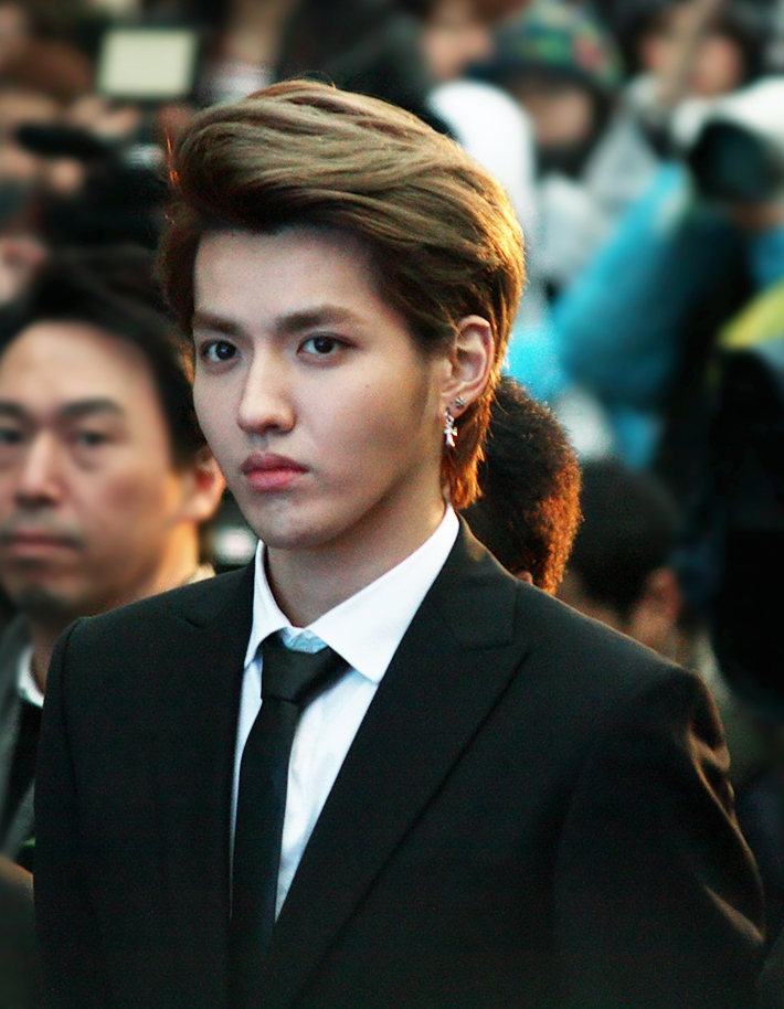 Kris Wu at the Hallyu Star Street on March 12, 2014.